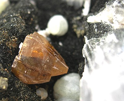 Greenockite Locality: Andesite quarry, Kreimbach-Kaulbach, Wolfstein, Rhineland-Palatinate, Germany (Locality at ) Size: small cabinet, 8.9 x 6 x 4 cm Greenockite A 7 x 7 x 5 mm MATRIX greenockite from a remarkable , small find that has produced what many consider to be the bets of the species for this rarity. I had never seen such a good matrix piece for sale! This crystal is gemmy and bright, and perched nicely on matrix with calcite, prehnite, laumontite, and other minerals. It is spectacular for the species. Ex. Gerald Herfurth Collection (and he paid about the same a decade ago so this is being recycled without accounting for appreciation). Is it expensive? surely. but it is a thing of such rarity that it is impossible to replace at any price.